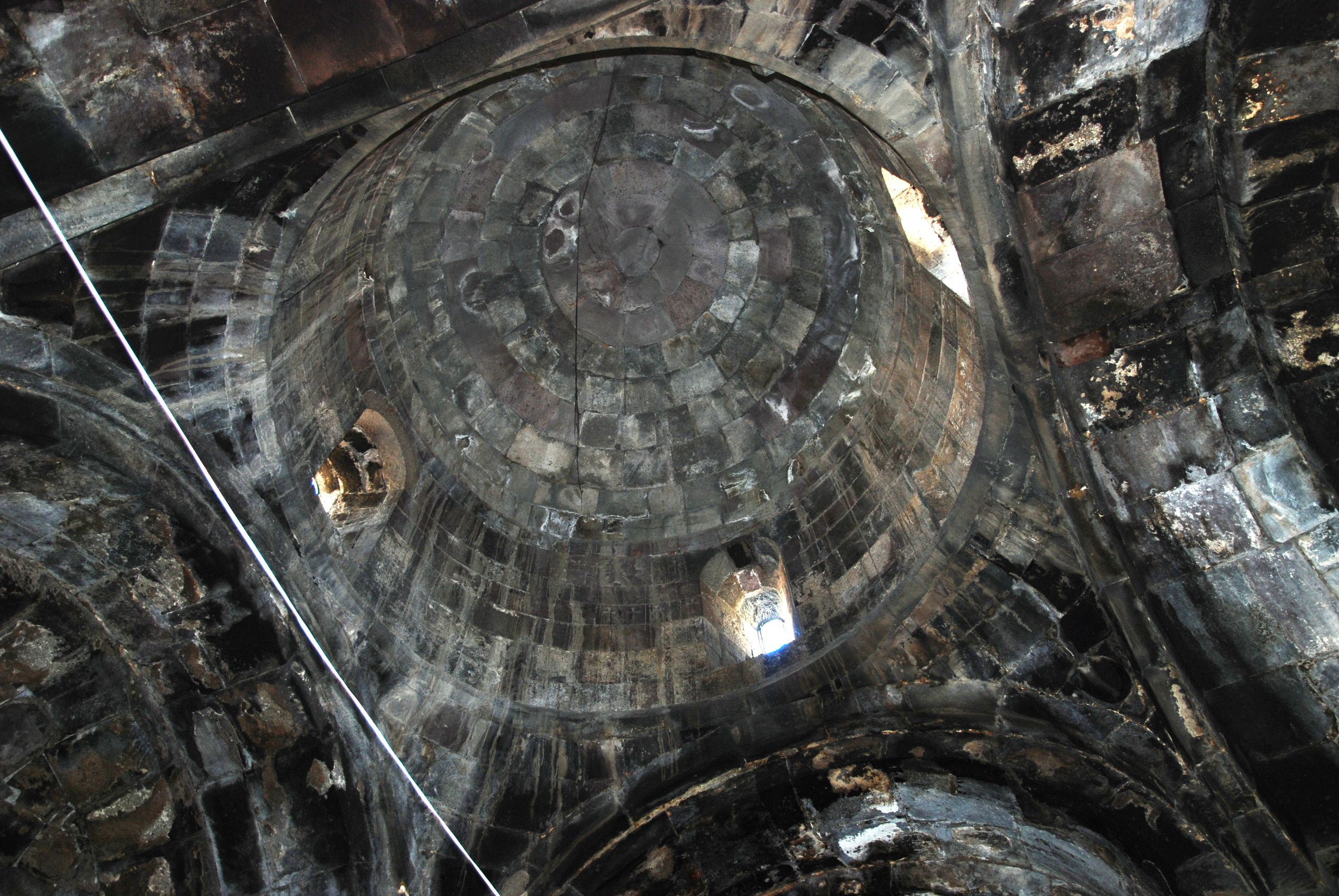 Gndevank, roof church